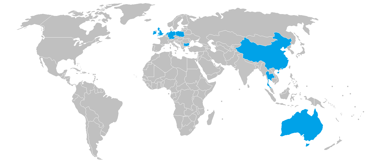 Nations hosting a World Snooker Tour event in 2012/13